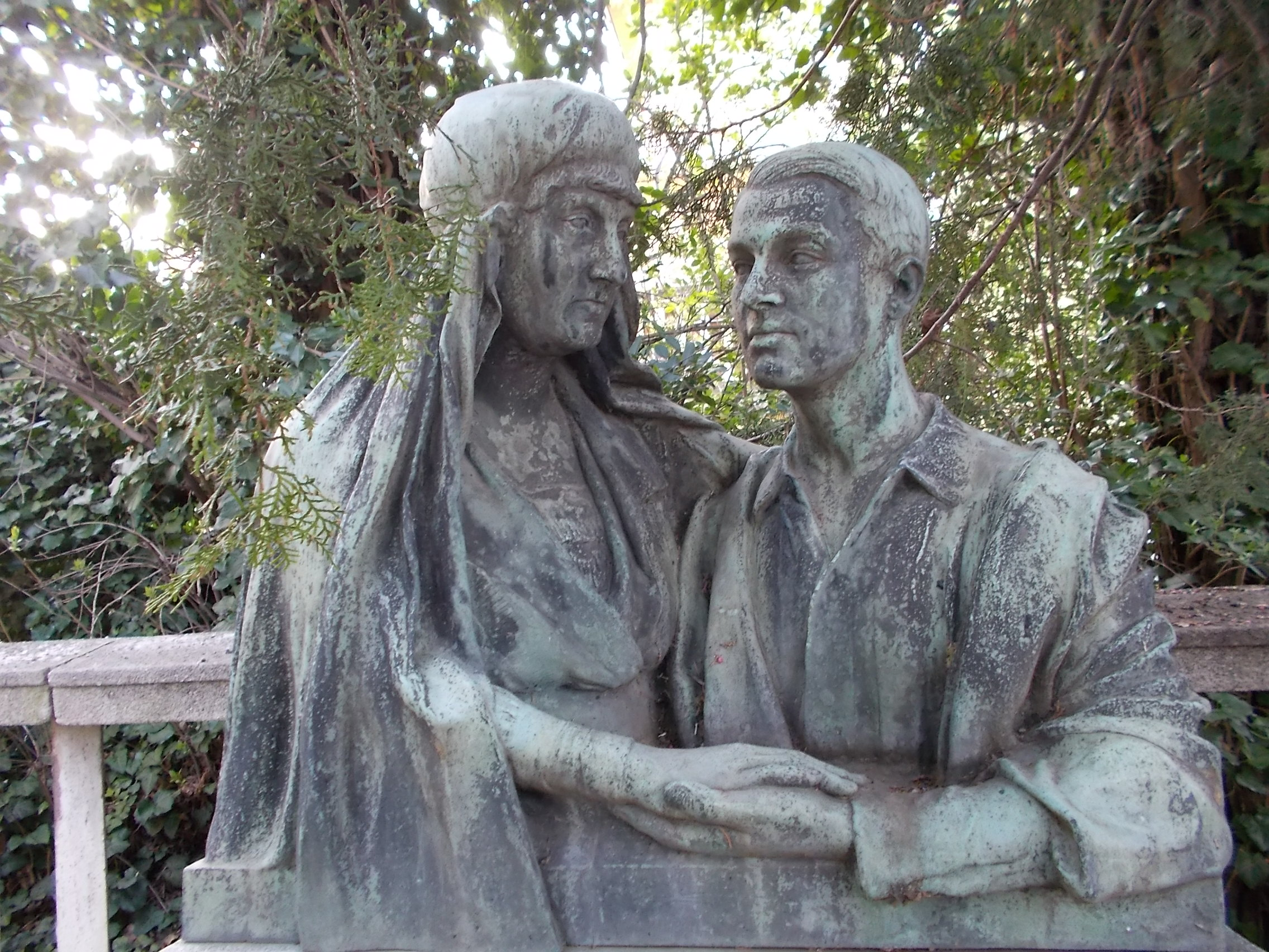 Bajor Gizi Actors' Museum. Mother and son, tombsculpture. - 16 Stromfeld út, Budapest District XII., Hungary.